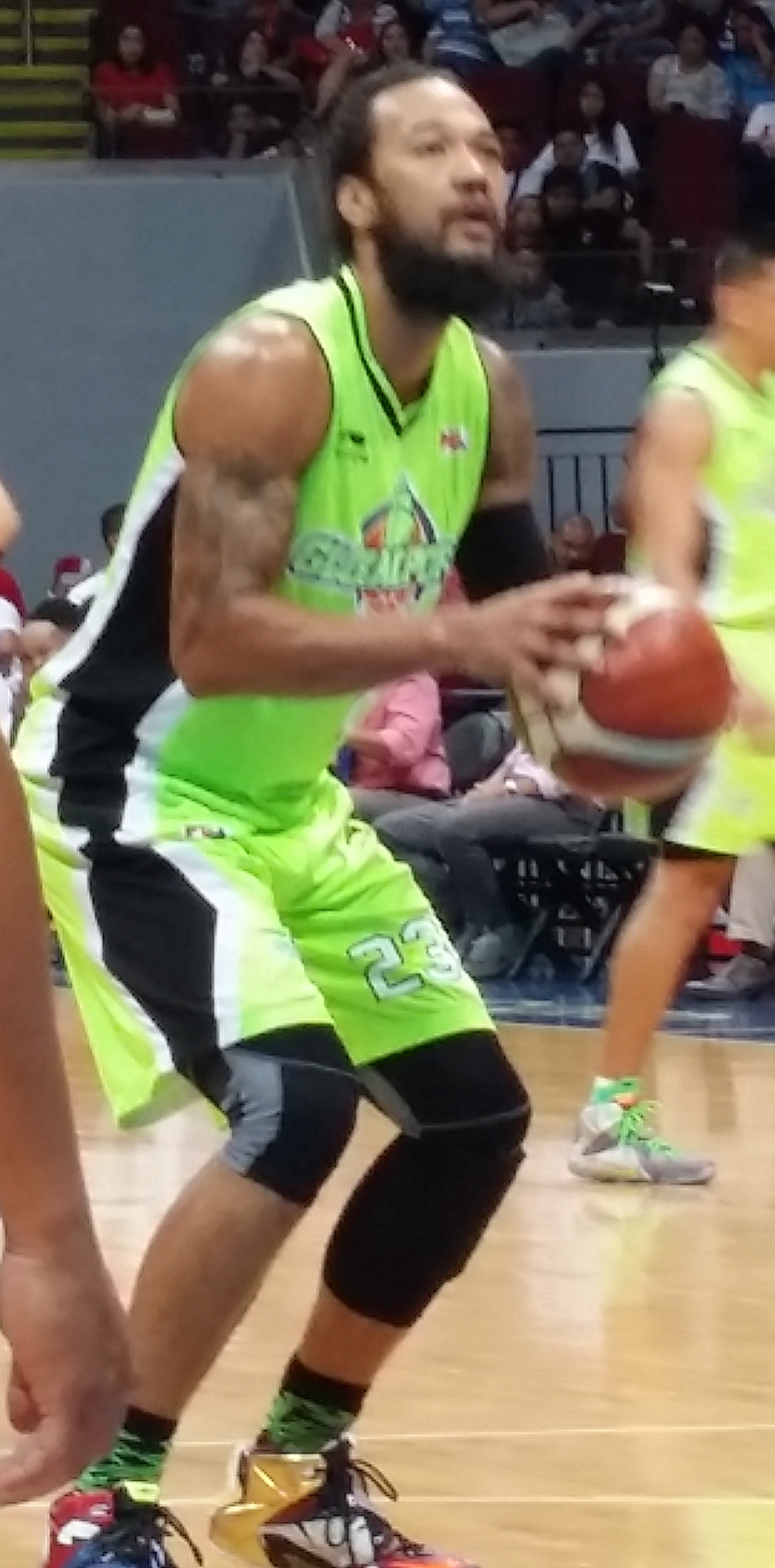 PBA - Globalport vs Barako Bull - Jay Washington-GlobalPort - 2015-1225